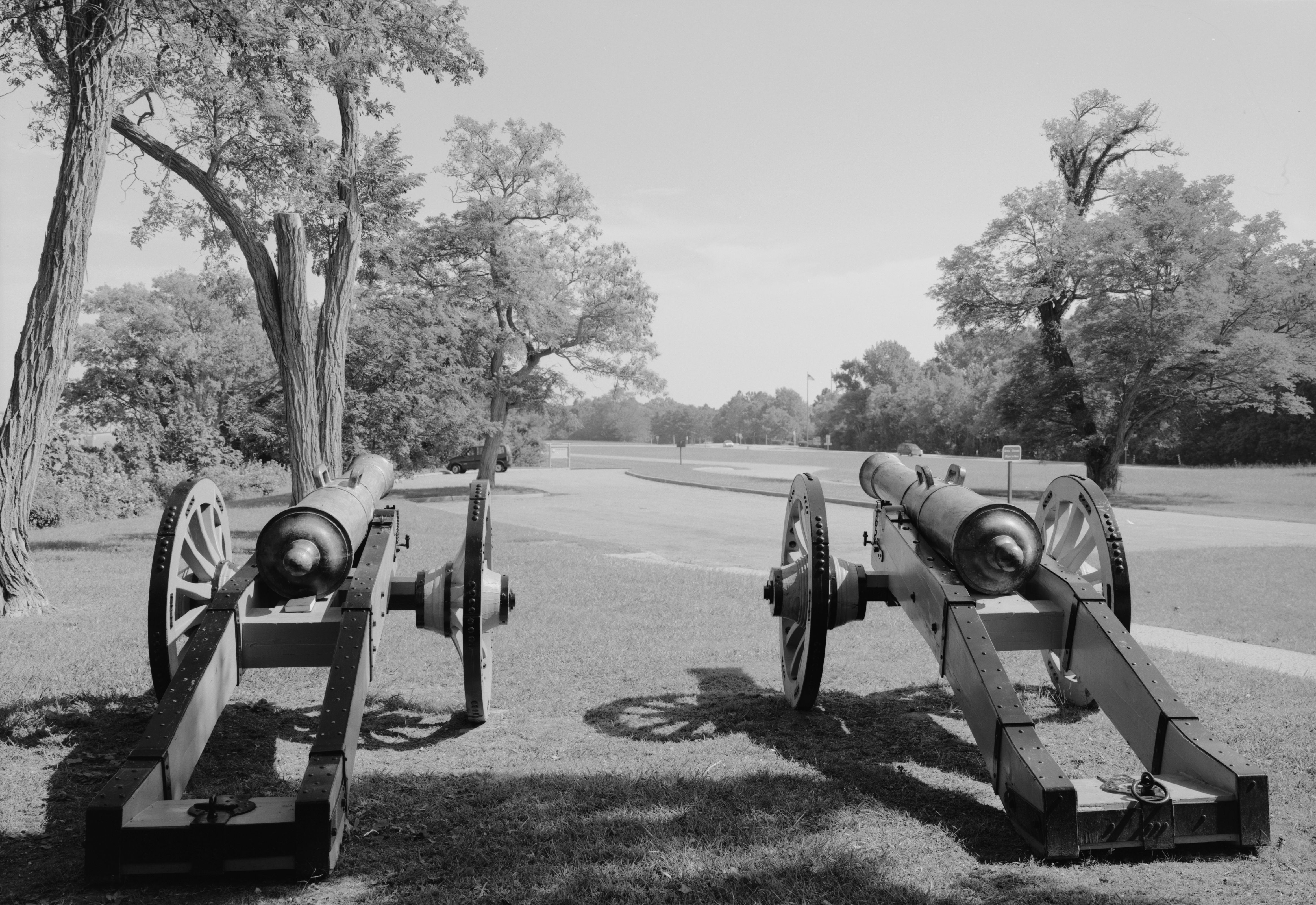 Colonial Parkway, Fusileir's Reboubt Overlook (York County, Virginia) (Cropped)